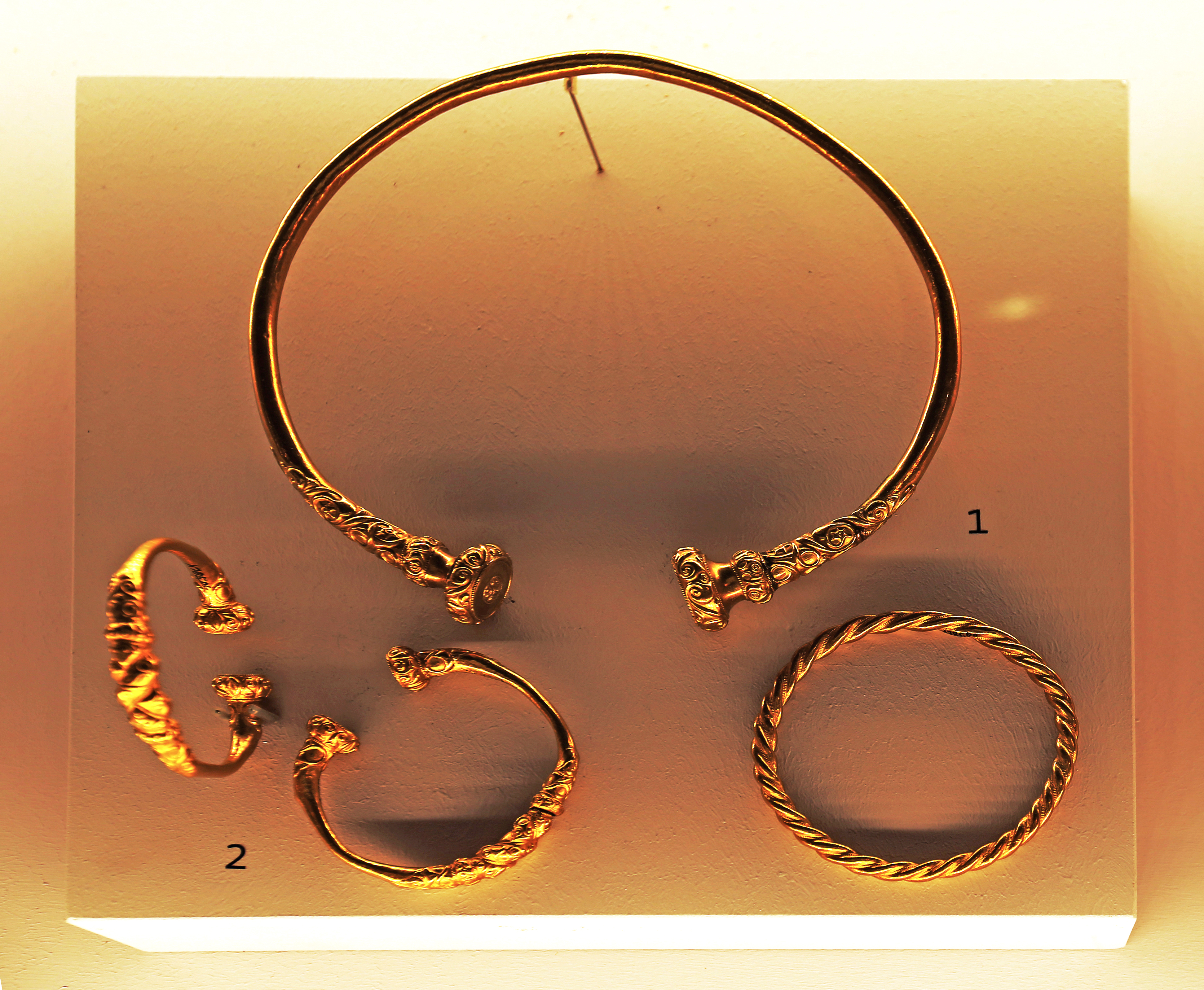 Jewels from the 1st century BC of celtic origin, found near Niederzier/Hambach, Germany.